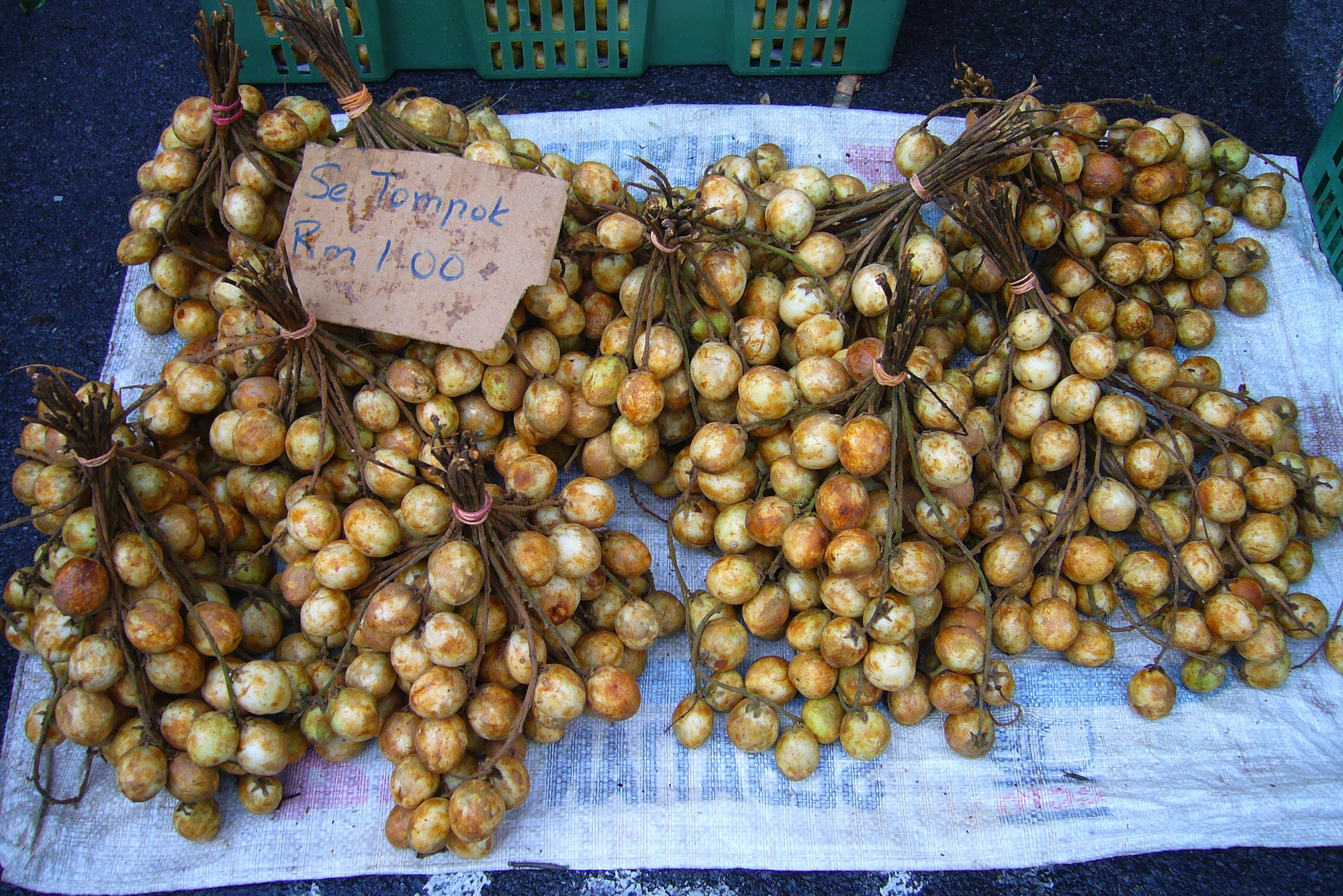 Species from Borneo Photographed at the Sunday Market, Kuching, Malaysia, Borneo